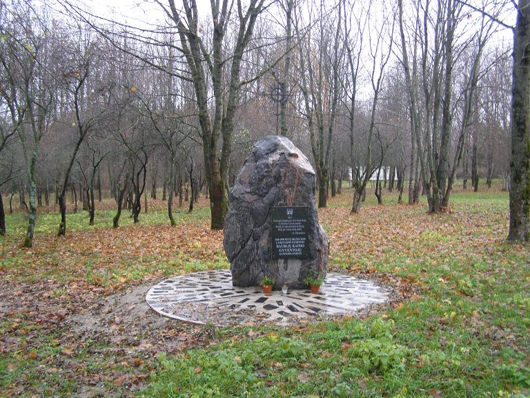 Baubliai settlement, Kretinga district, LithuaniaLietuvių: Paminklas Baublių gyventojų 1940-1990 m. okupacijos kančioms atminti, Kretingos rajonas, Lietuva